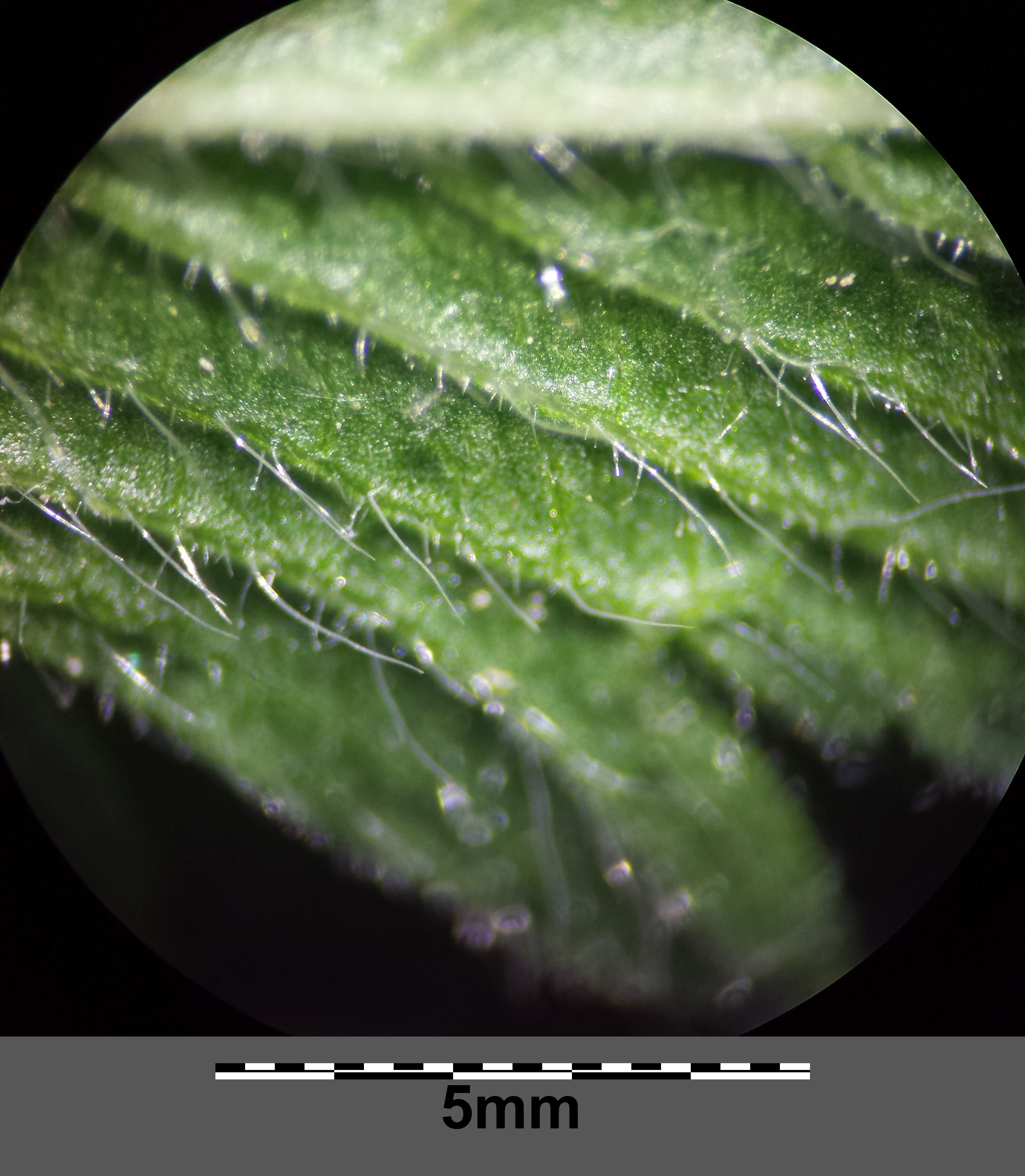 Bottom side of leaf Taxonym: Potentilla recta ss Fischer et al. EfÖLS 2008 ISBN 978-3-85474-187-9 Location: Neue Donau, Vienna-Floridsdorf - ca. 160 m a.s.l. Habitat: dry slope